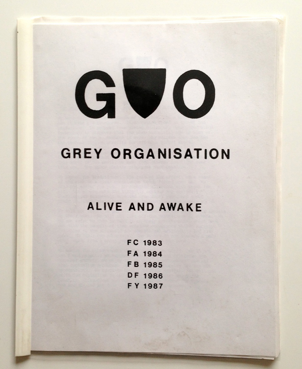 Go Manifesto, for more info